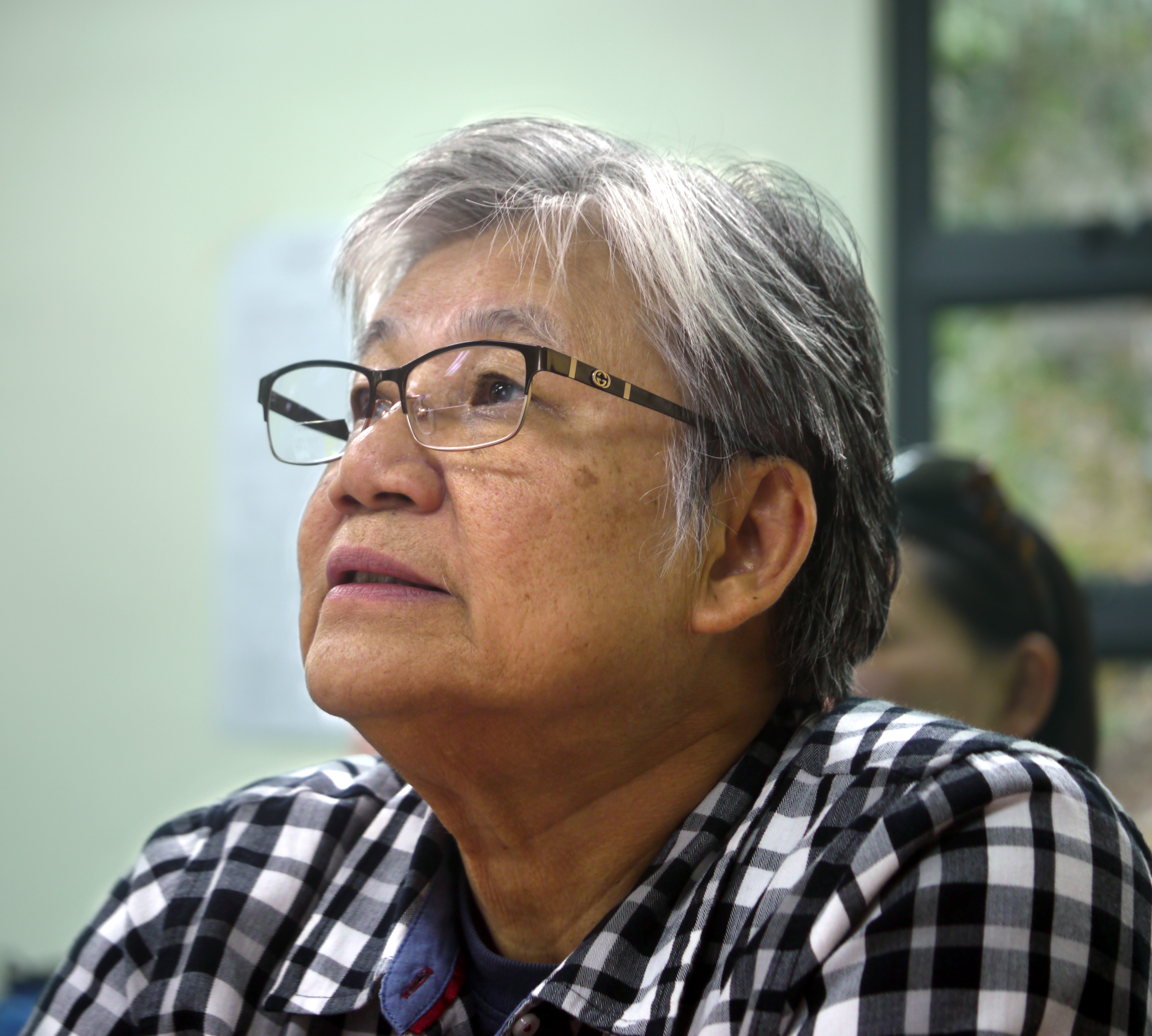 photo taken at Helmeted Hornbill Workshop, Kubah National Park, Sarawak, Malaysia